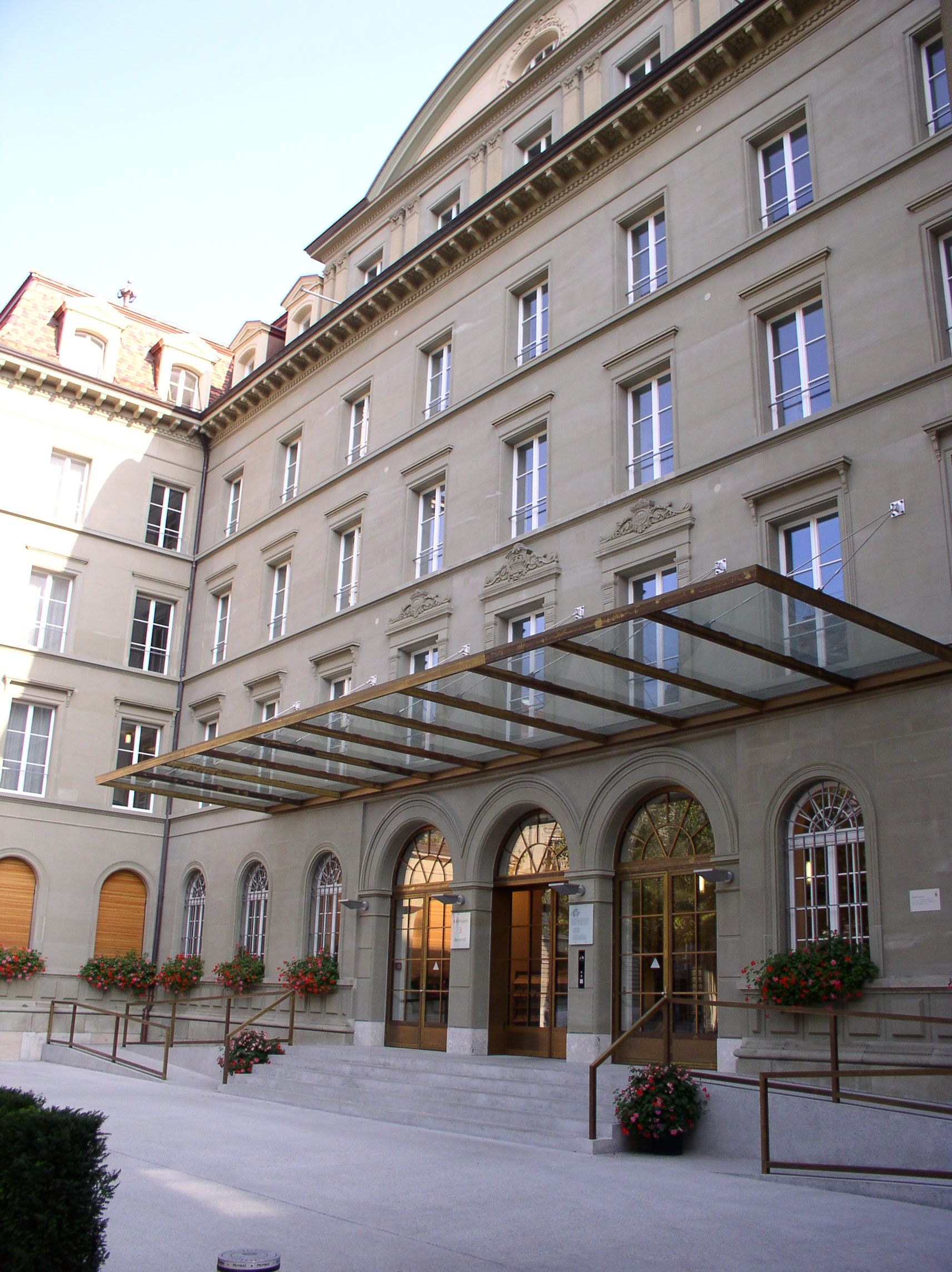 The Bernerhof, headquarters of the Federal Department of Finance.